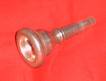 Mouthpiece of a trombone